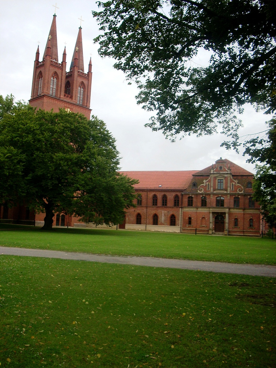 The church from the Monastery Dobbertin